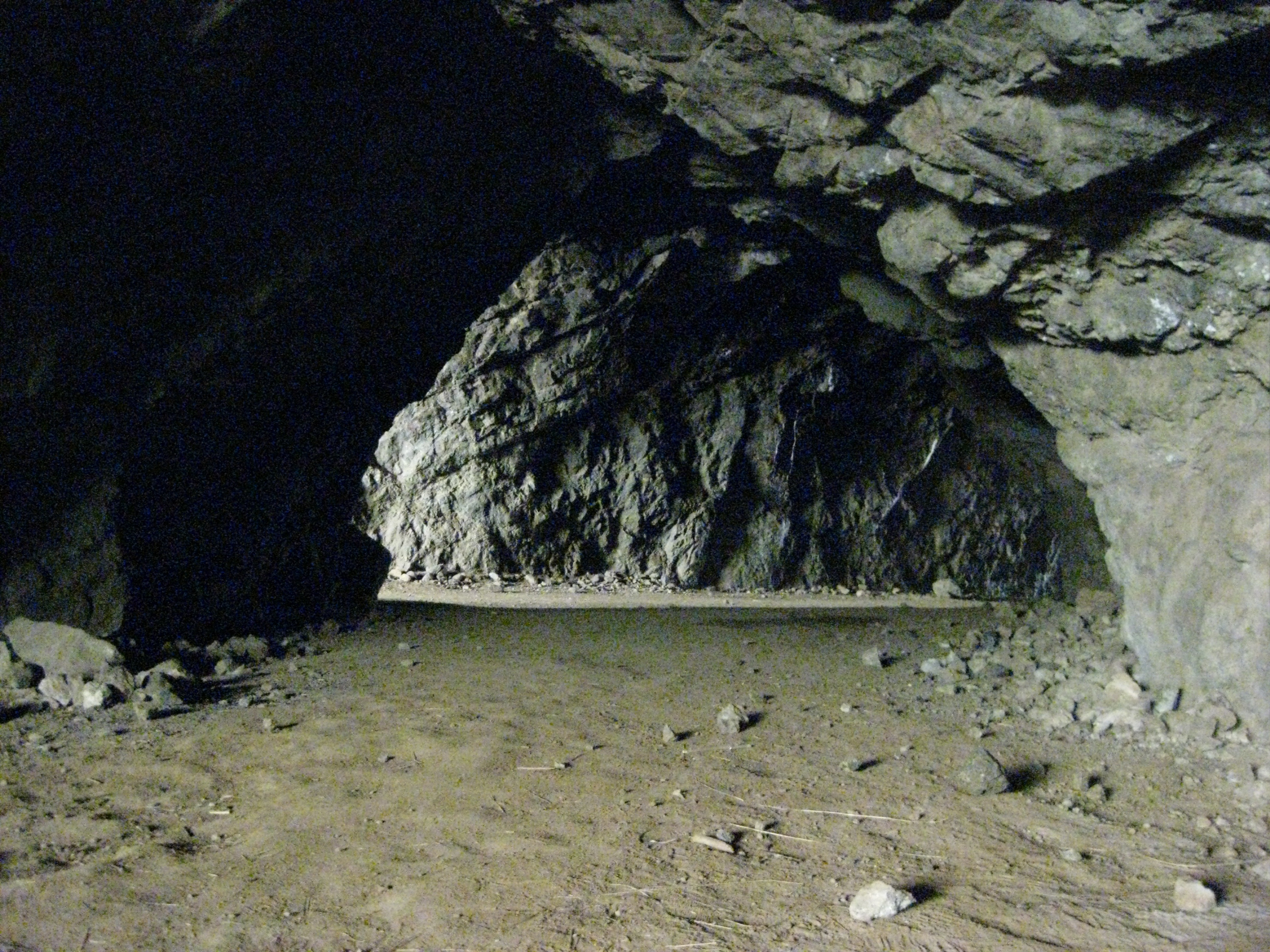 Bronson Caves, Griffith Park.